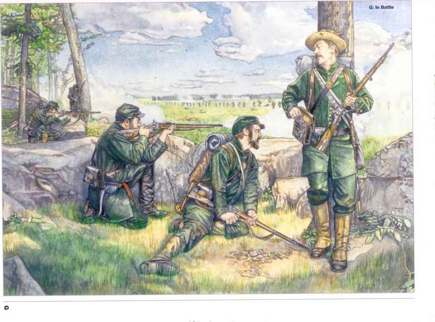 1st Georgia Sharpshooters Uniform in Civil War